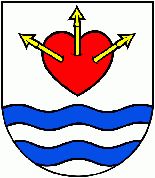 coat of arms Dolna Strehova